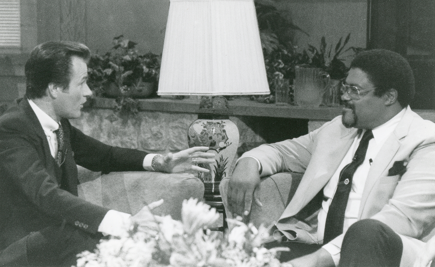 Richard Roberts and Rose Grier on Richard Roberts Live television program